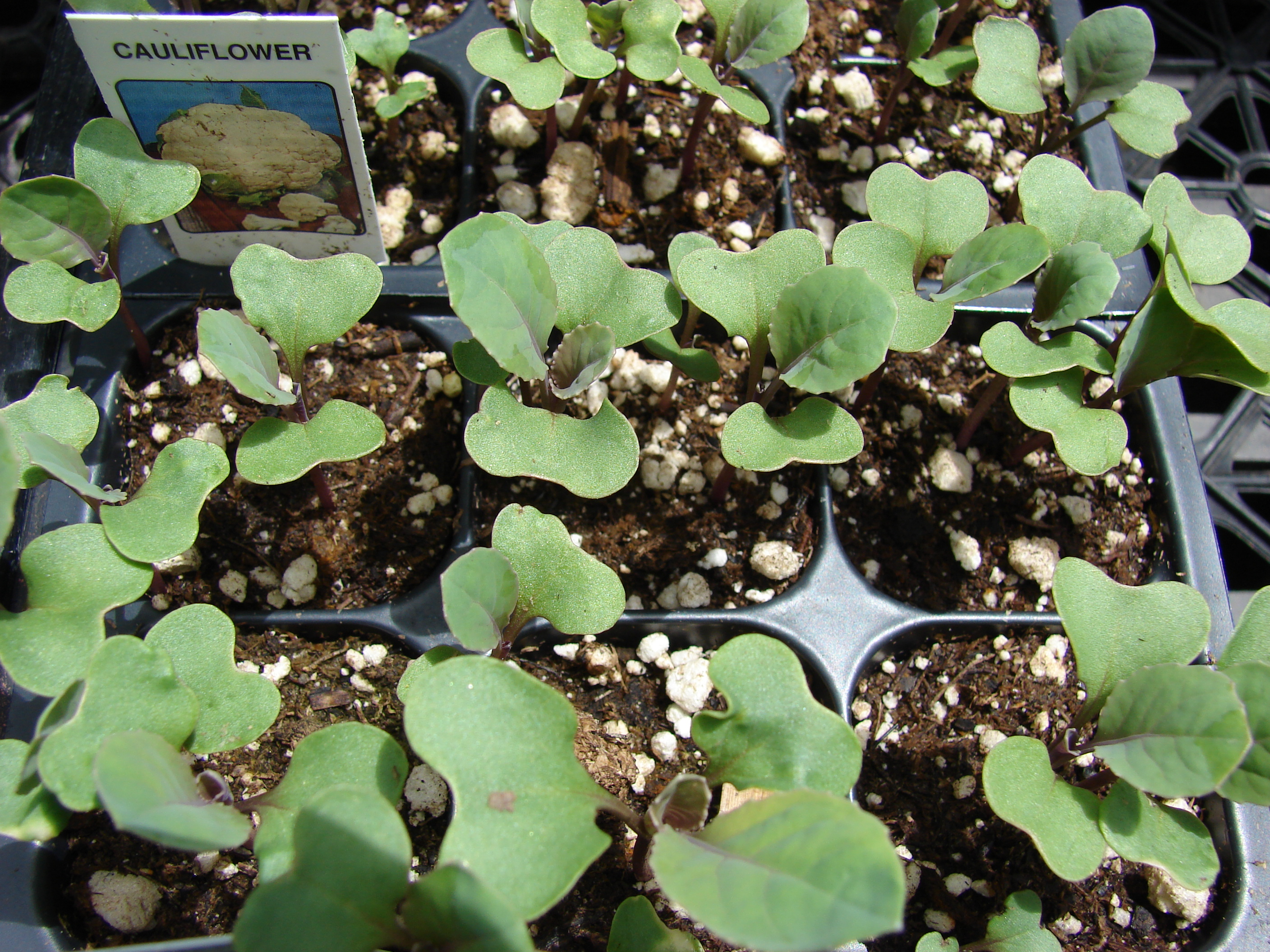 Brassica oleracea var. botrytis (cauliflower habit). Location: Maui, Kula Ace Hardware and Nursery